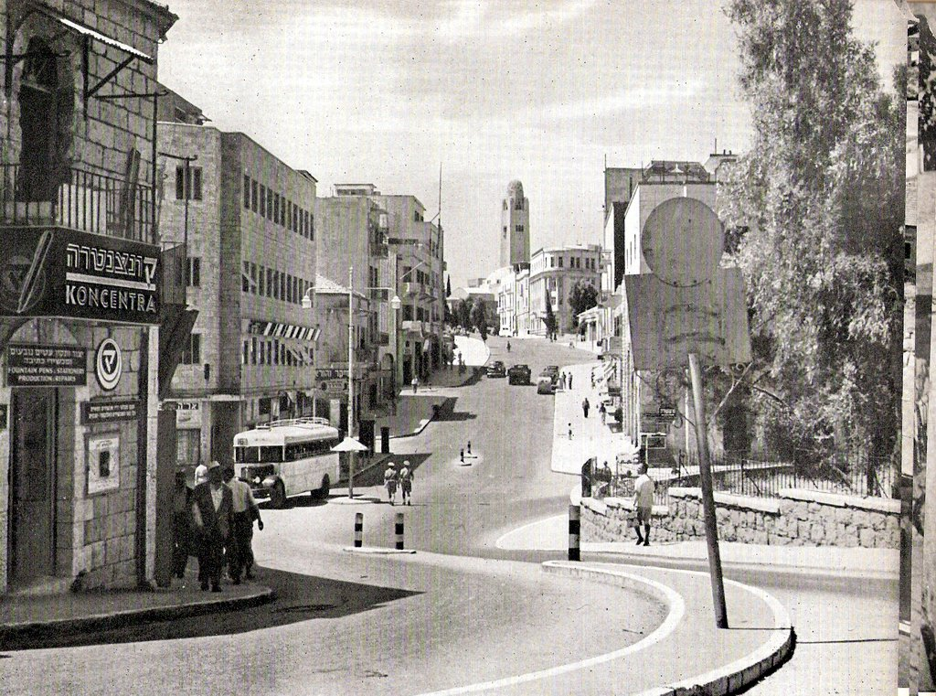 St Julian Way and Jerusalem International YMCA